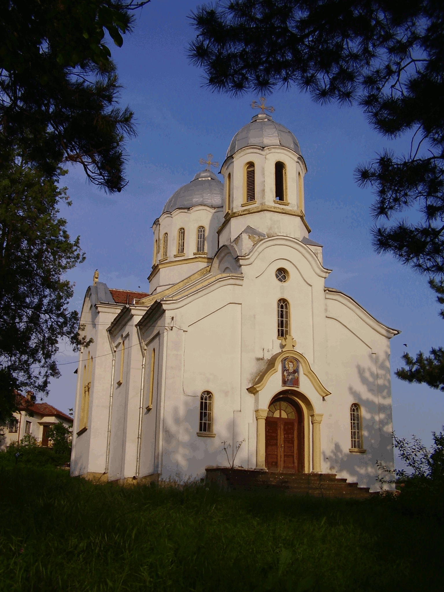 Church of Saint Demetrius, Koilovtsi, Pleven, Bulgaria